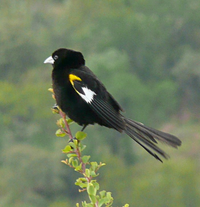 White-winged Widowbird at Pilanesberg Game Reserve in South Africa